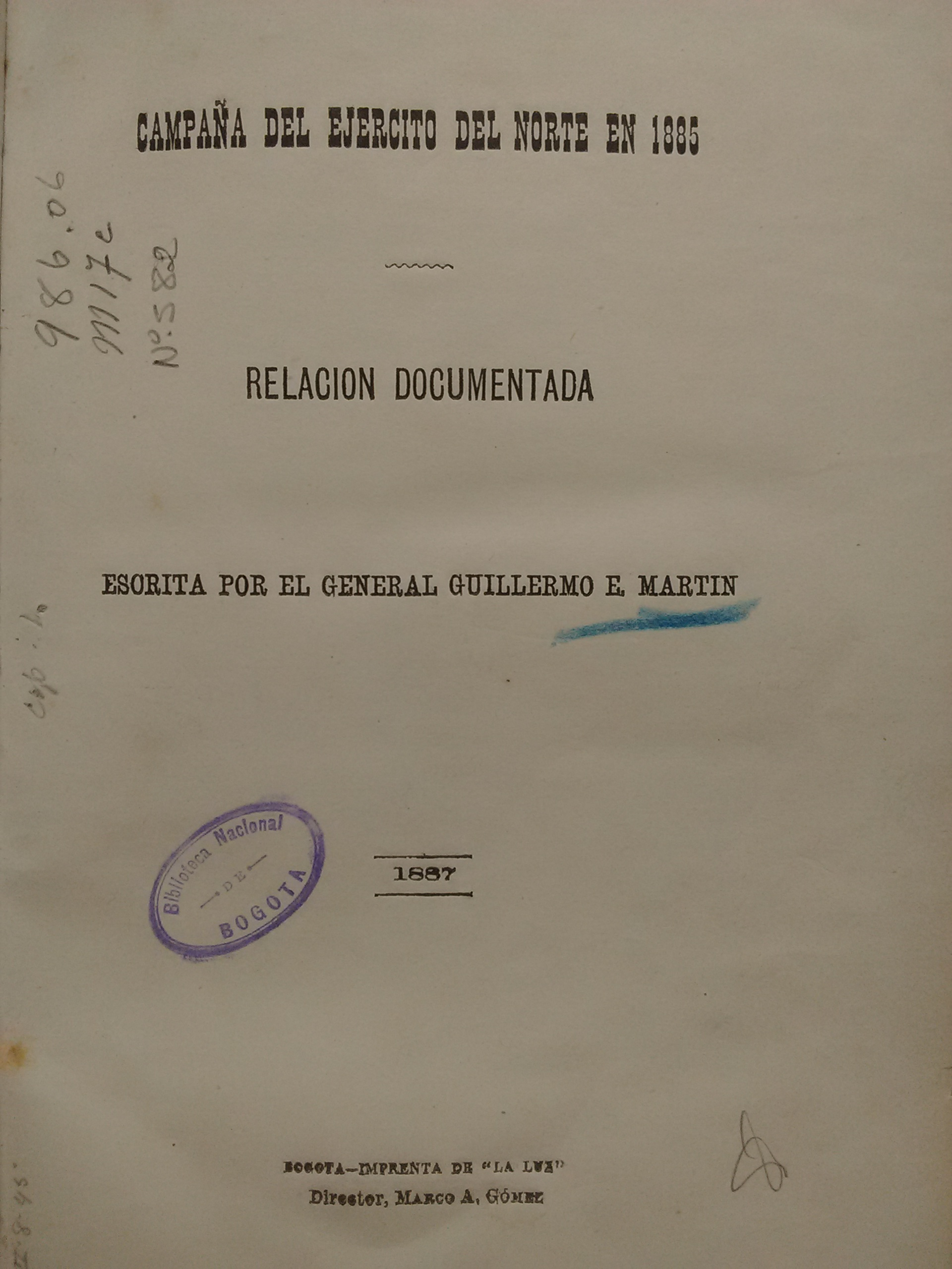 Cover of the book Campaña del ejército del norte (Military campaign for the north) in 1885, written by the general Guillermo E. Martin, and printed by La Luz in the city of Bogotá, Colombia, in 1887.